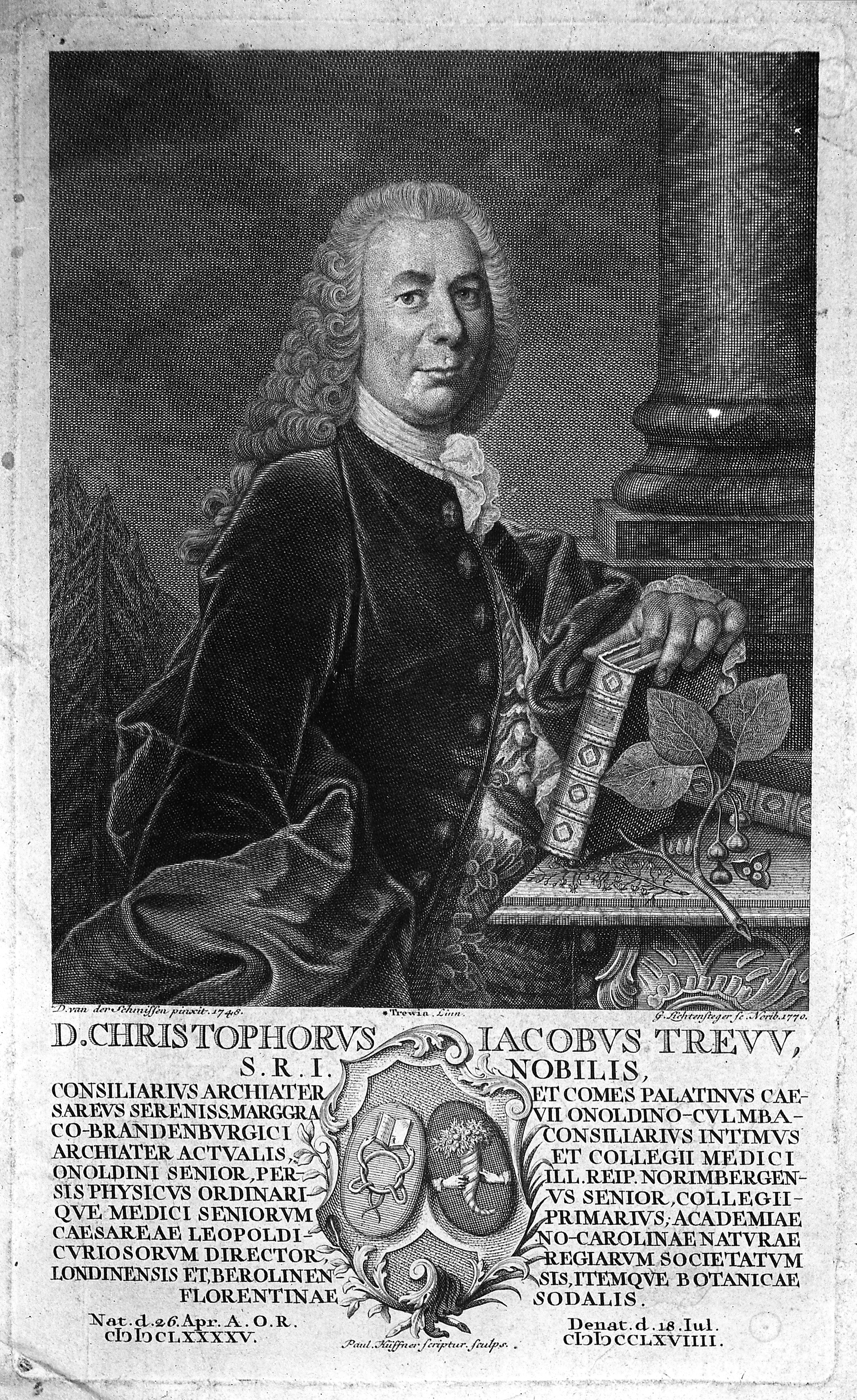 Portrait of Christoph Jacob Trew Iconographic Collections